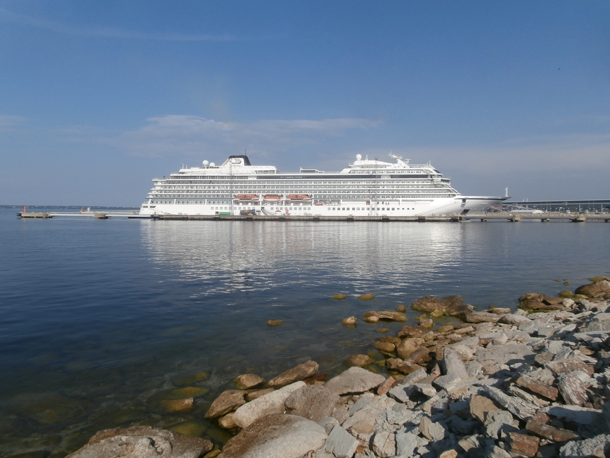 Viking Sun starboard side, Port of Tallinn 2 August 2018